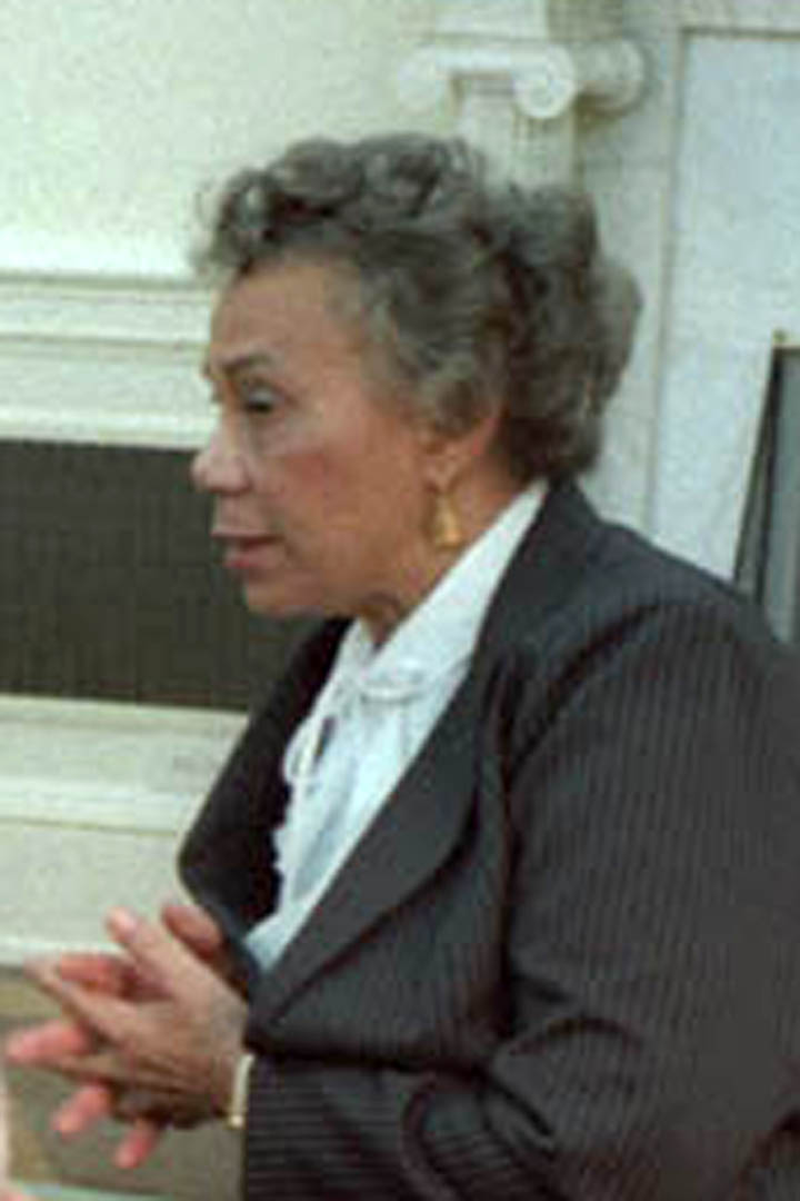 Dame Eugenia Charles, prime minister of Dominica, in the White House